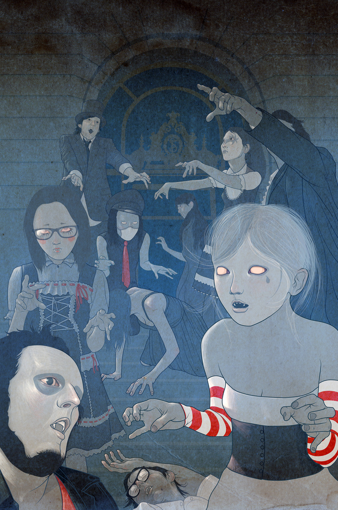 Richard Wilkinson original illustration for limited edition Little Brother (novel by Cory Doctorow) 06